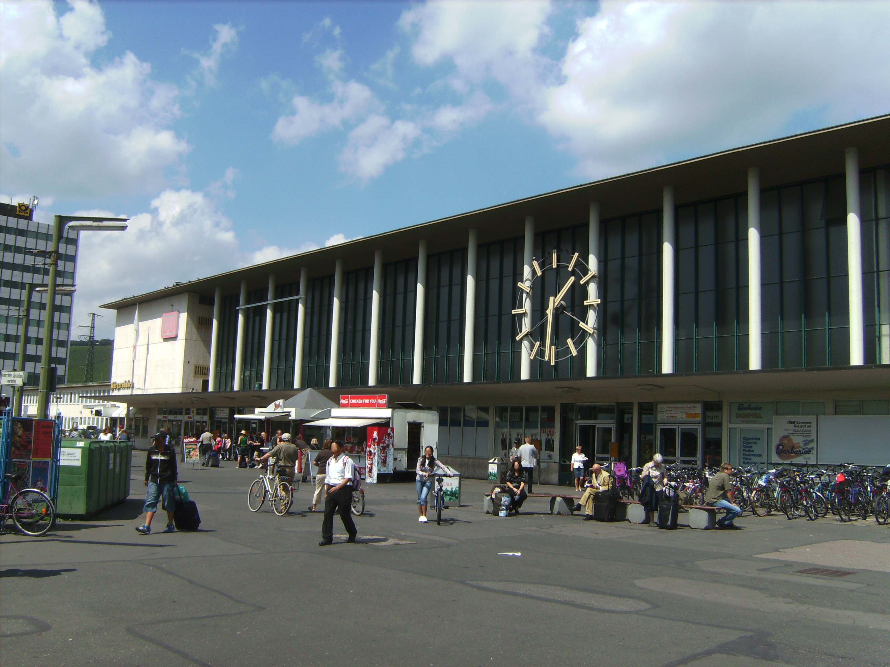 The entrance building of Würzburg main station